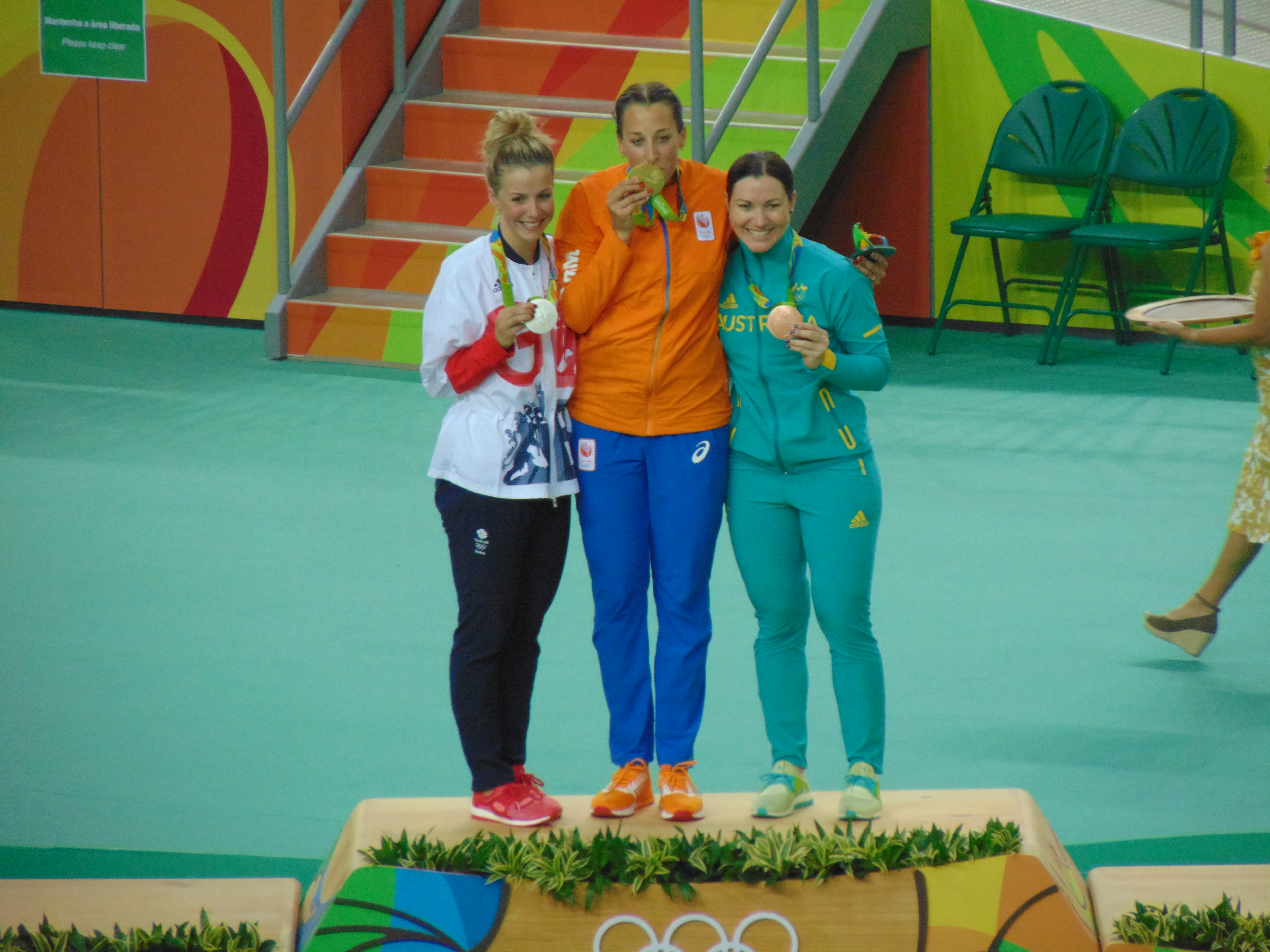 Rio 2016 - Track cycling 13 August (CT004)